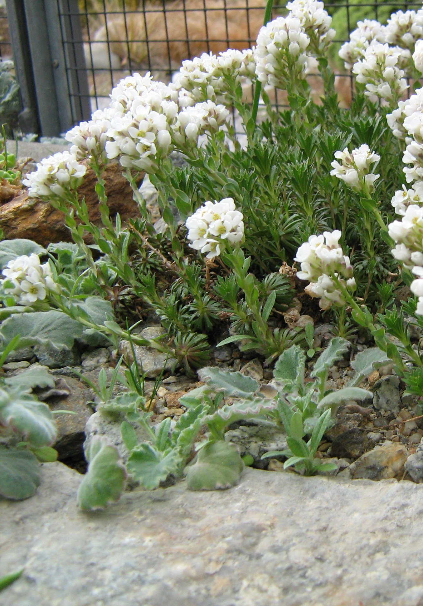 Coluteocarpus vesicaria in the botanic garden of Berne